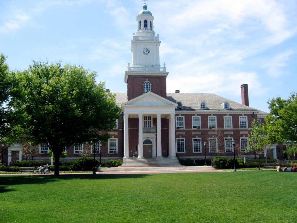 Gilman Hall, Johns Hopkins University, Maryland, USA.